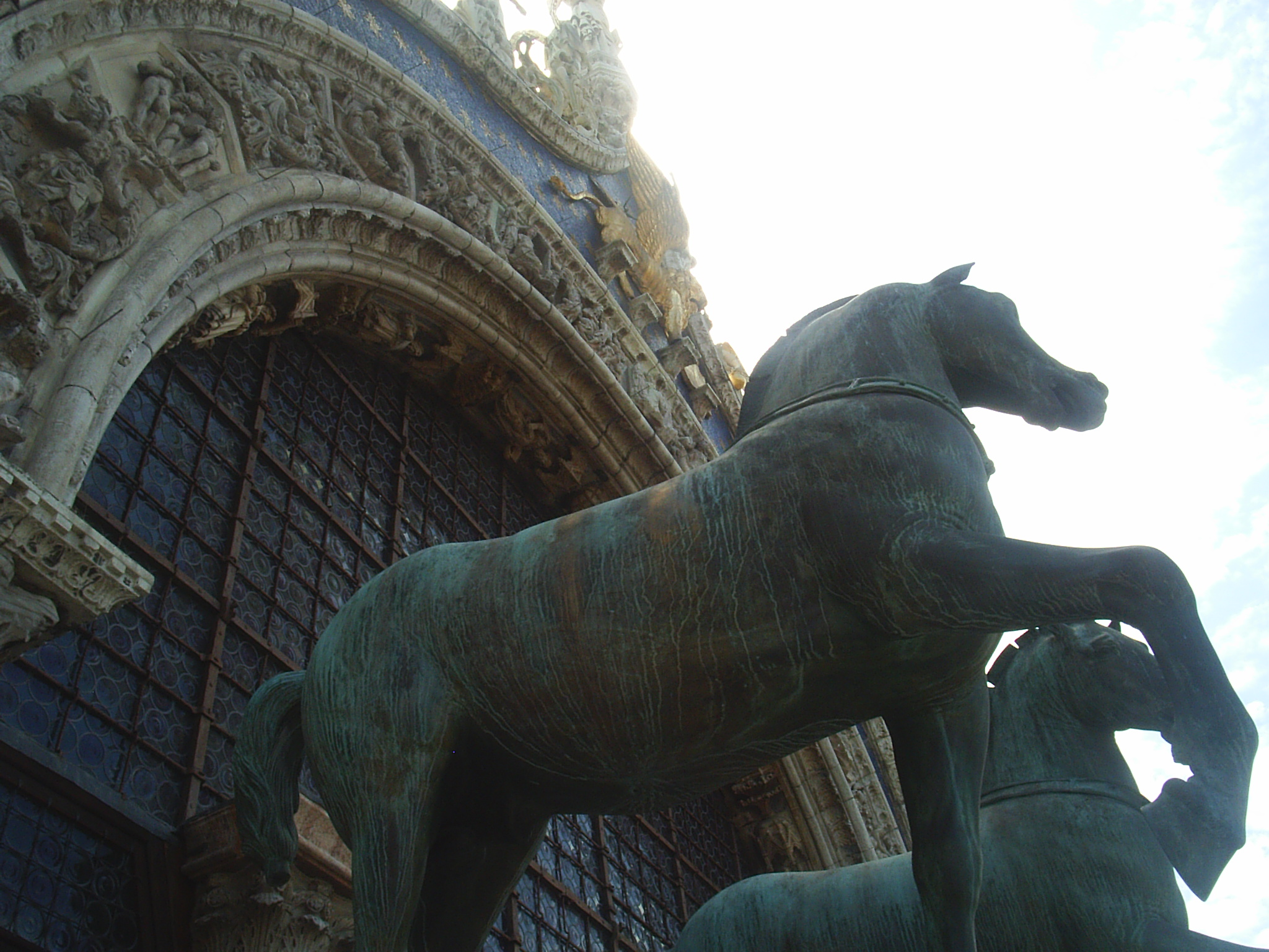 St Mark's Square